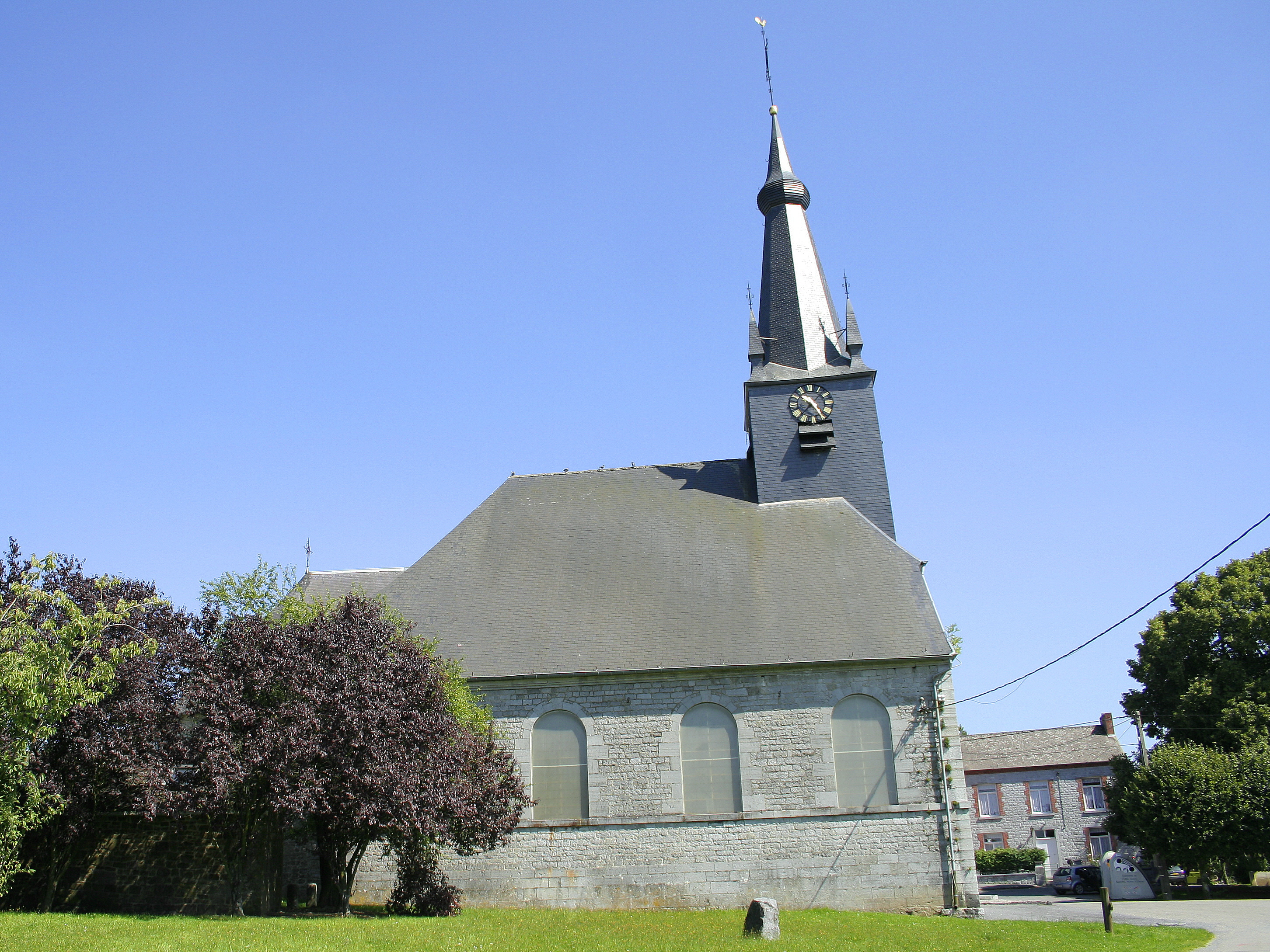 Monceau-Imbrechies (Belgium), the St. Marcouf church (1832).